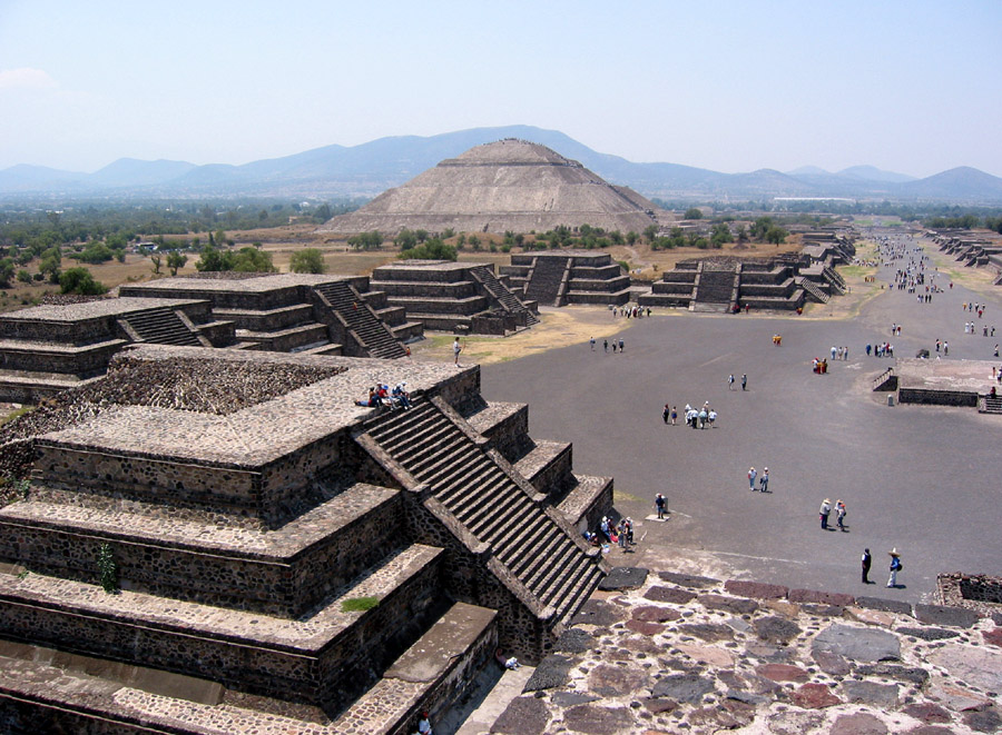 The Pyramid of The Sun and Avenue of The Dead, viewed from the top of Pyramid of The Moon, are the symbol of Teotihuacán, an ancient civilization once existed in today's central Mexico.